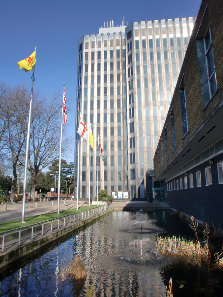 Civic Centre, Silver Street, Enfield Civic Centre with reflection in the New River Loop.